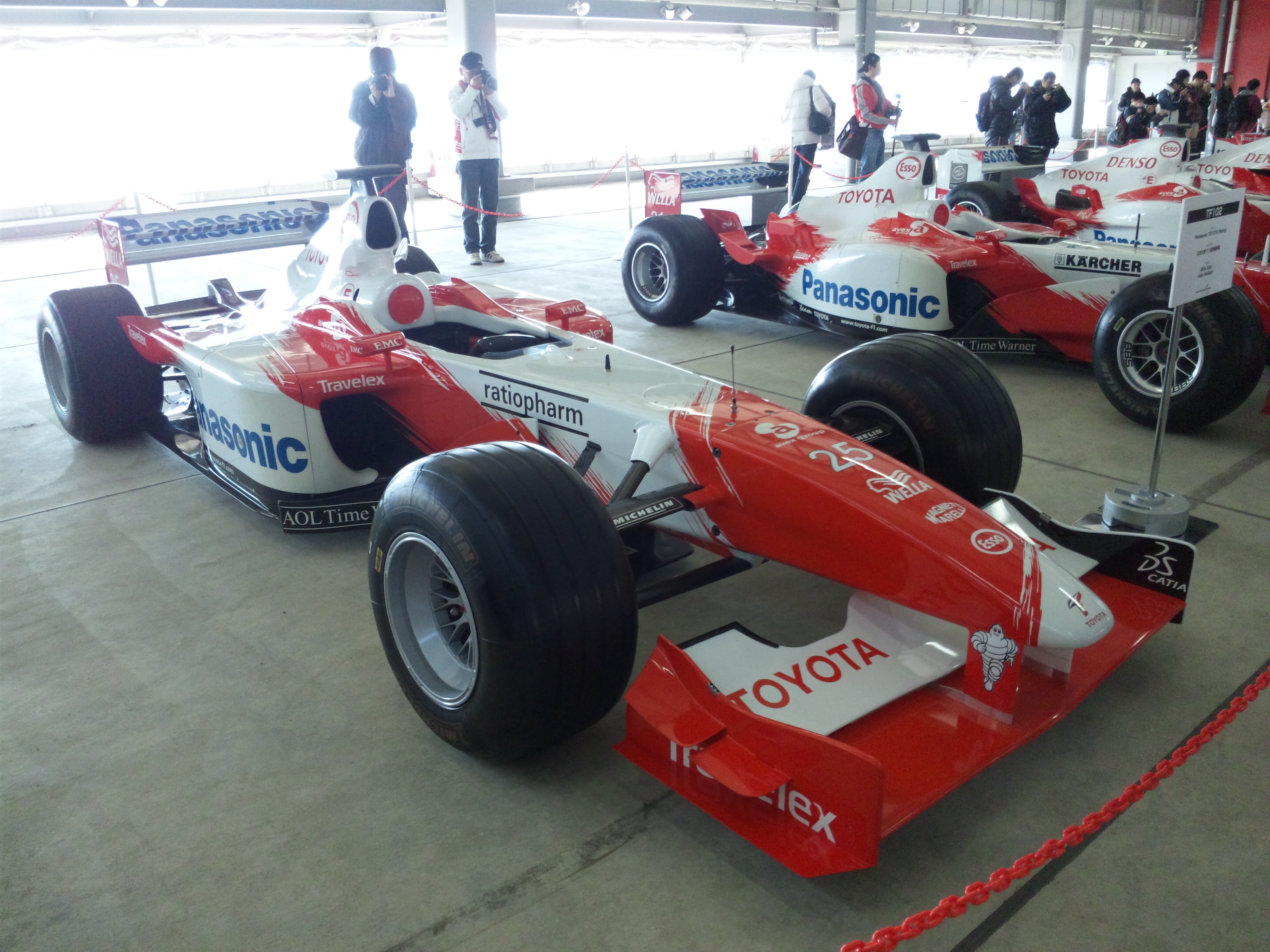 Allan McNish's Toyota TF102 exposed at 2010 Toyota Motorsports Festival